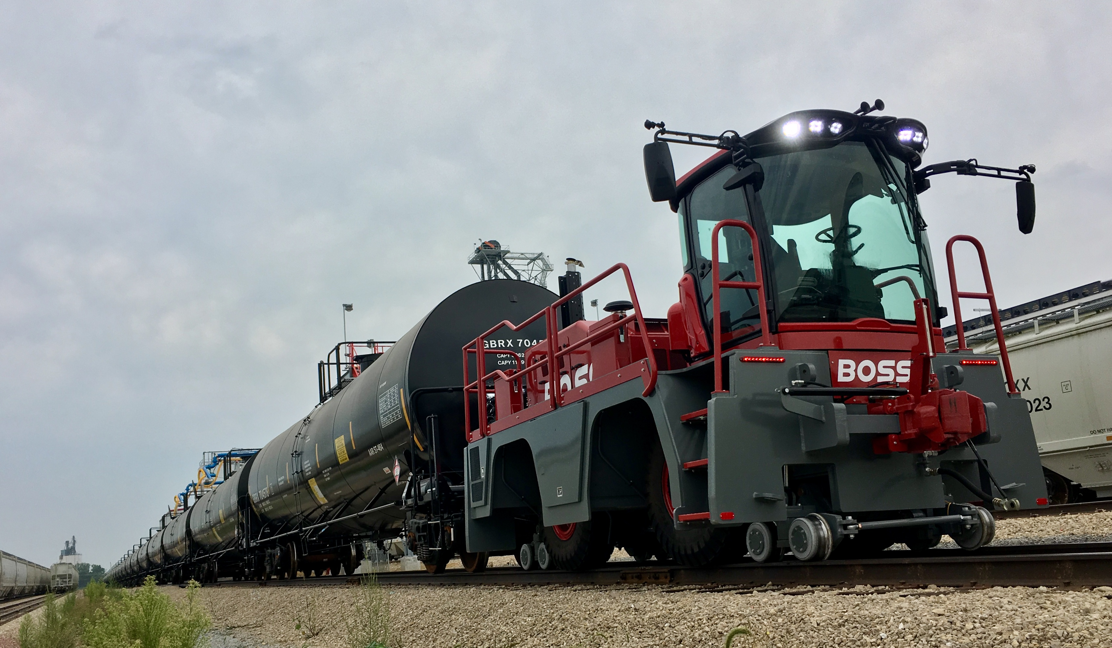 The newest railcar mover on the market. Made in the USA. The BOSS waiting to move the next set of tank cars.